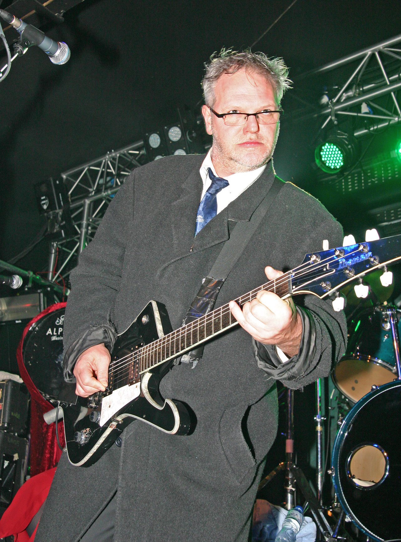 Tim Smith performing with Cardiacs in Oxford, 2007.